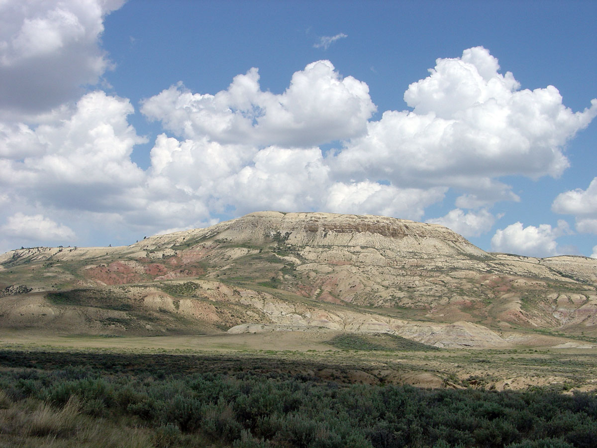 Fossile Butte National Monument, Wyoming, USA. View of the eponym Fossil Butte in the vicinity of the Historic Quarry Trail. The trail leads to the site of a fossil quarry in the Green River formation.